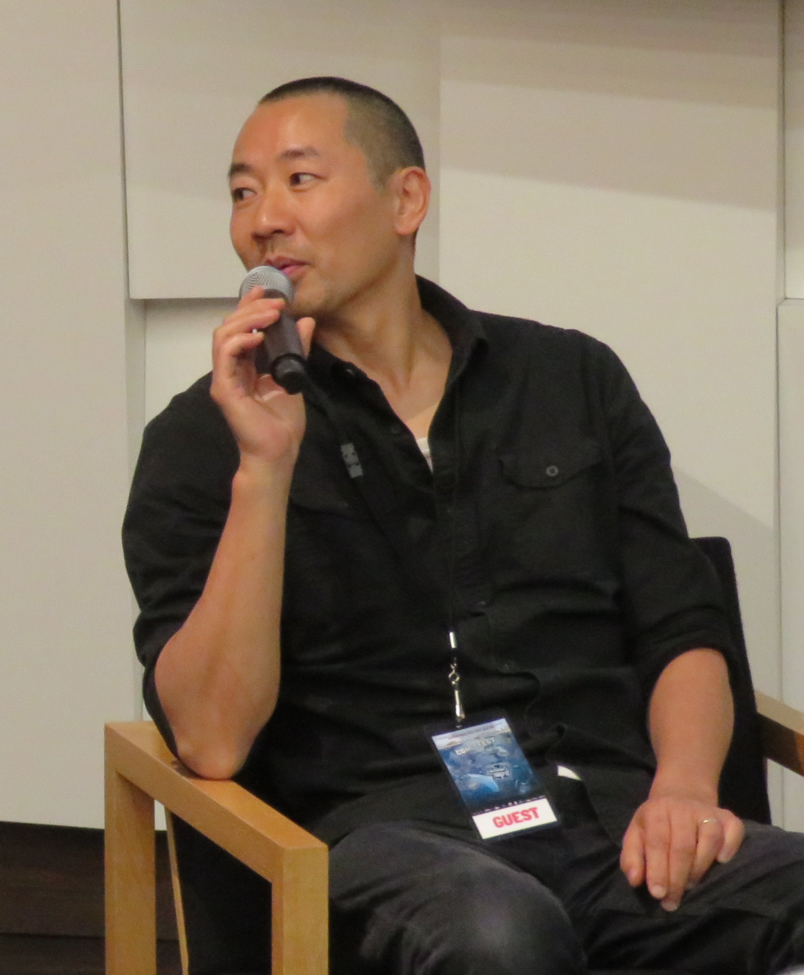 Ant Sang (New Zealand comics artist) during Wellington ComicFest 2019 panel "The Ascent of Children’s Comics", at National Library of New Zealand